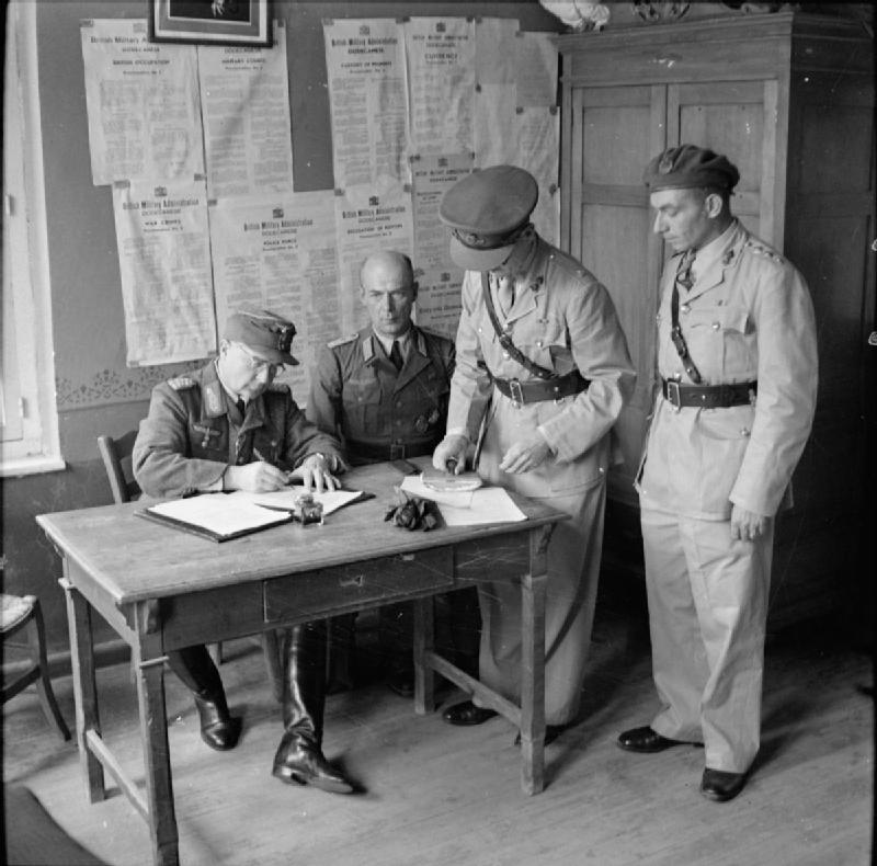 The Liberation of Rhodes, 1945 In a small civilian courtroom on the island of Symi in the Aegean, Generalmajor (equivalent to Brigadier in the British Army) Wagener, Commander of German forces in the Dodecanese, signs the unconditional surrender of German forces in the region.